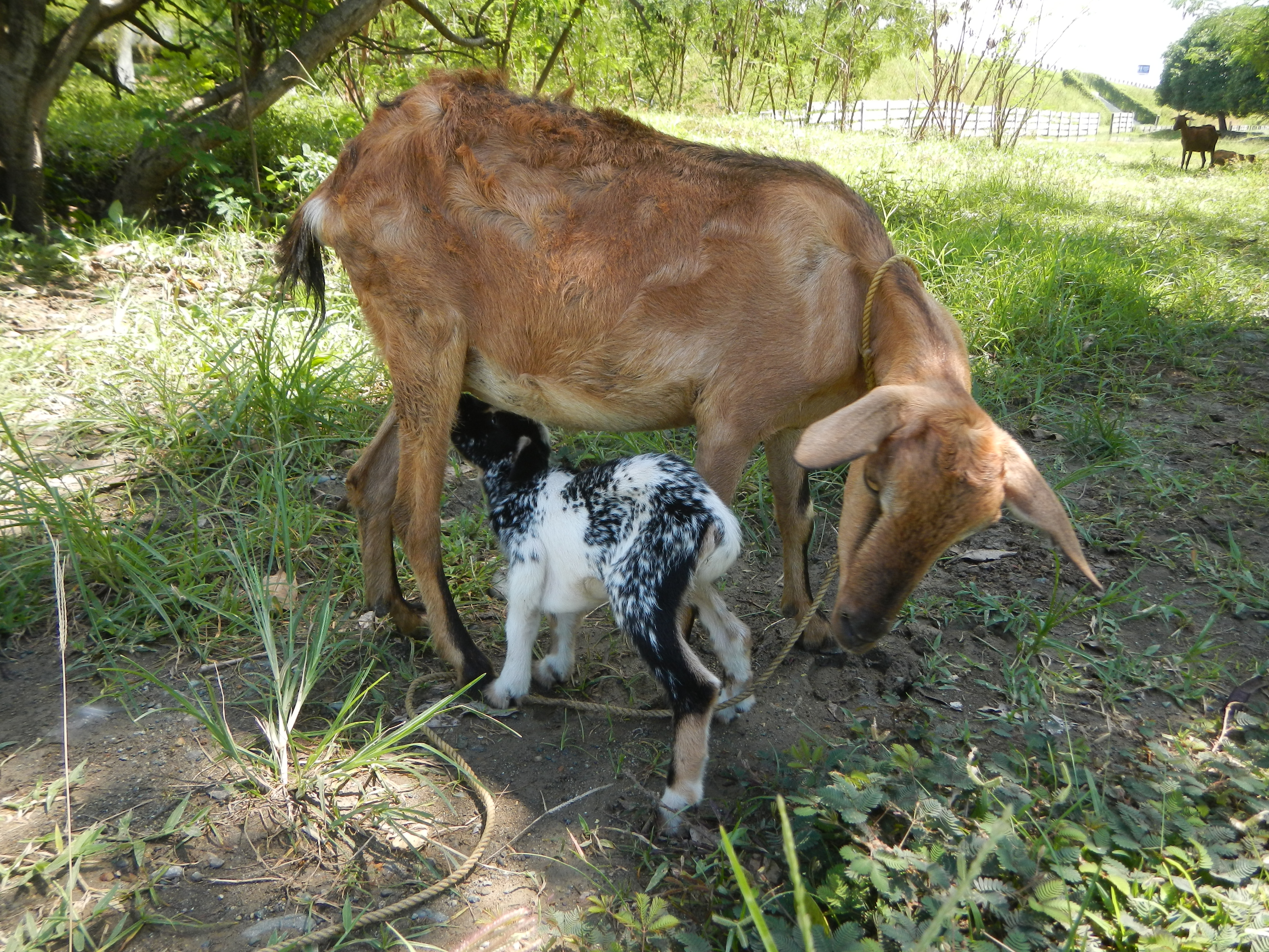 List of Barangays in Tarlac, Barangay Pance, Ramos, Tarlac (along Ramos-Anao, Tarlac Road; Pance, Ramos, Tarlac Bridge ID B0 1823 LZ Station K0 163+376 38.20 meters over Creek to Tarlac River towards and connecting to Tarlac–Pangasinan–La Union Expressway (Ramos, Tarlac section) and connecting to Coral, Ramos, Tarlac Bridge ID B0 1800 LZ Station K0 160+634 6.20 meters over Creek - beside neighbors Coral-Iloco, gate to Town Proper in Barangay Poblacion North, Poblacion South and Poblacion Center, Ramos, Tarlac along the Paniqui, Anao and Ramos Arterial Road part of the Paniqui, Anao and Moncada, Tarlac-Nampicuan, Nueva Ecija Arterial Road from MacArthur Highway or Manila North Road).